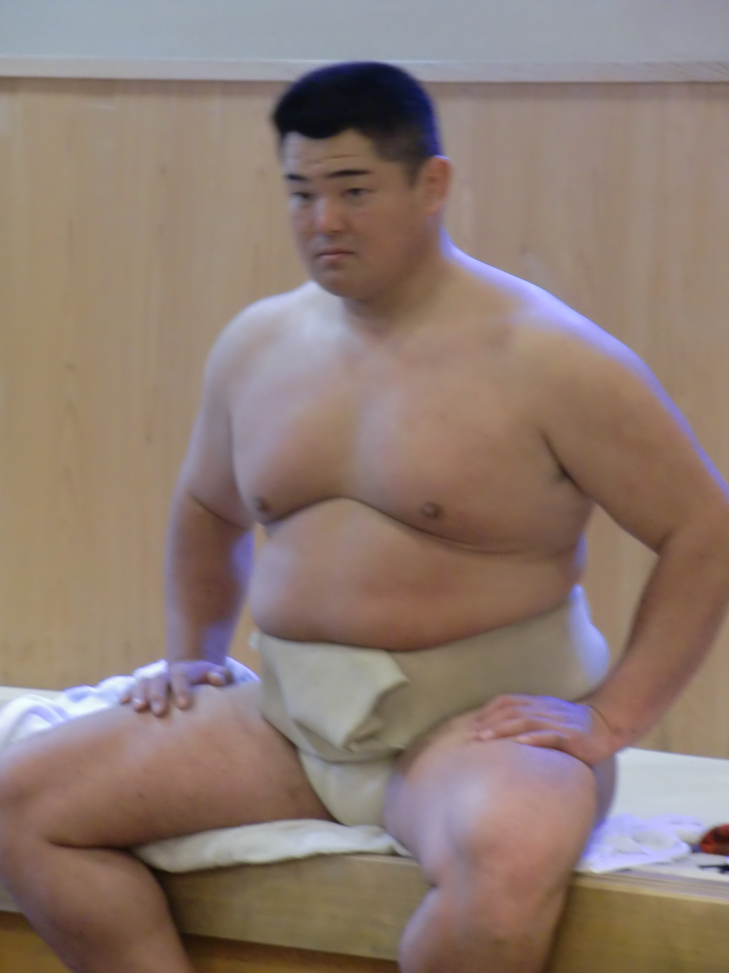 taken at sumo stable 2010